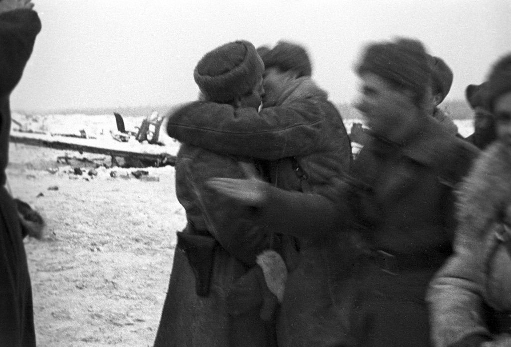 “Joining of Leningrad and Volkhov Fronts”. The Great Patriotic War. Troops of Leningrad and Volkhov Fronts united near workers settlement #5.